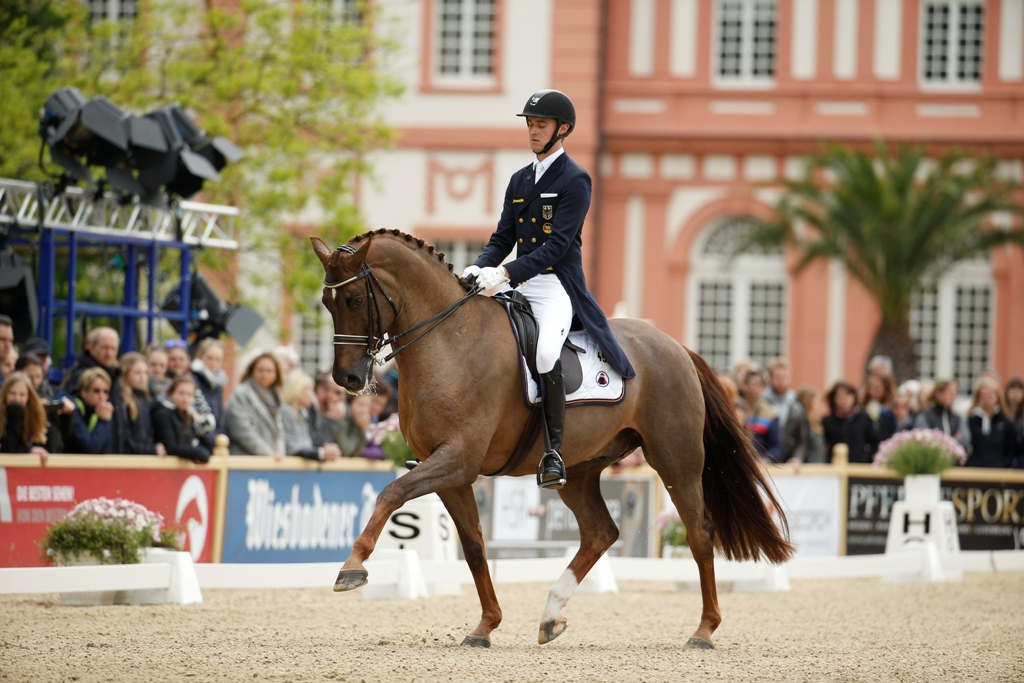 Sönke Rothenberger with Favourit at the Grand Prix de Dressage, CDI 5* PfingstTurnier Wiesbaden 2016